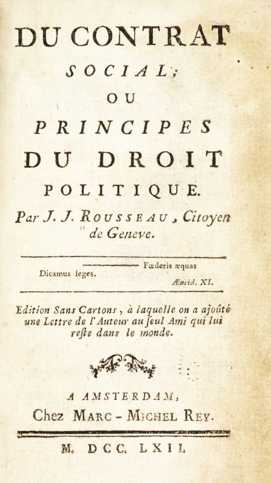 This is the title page of an early pirated edition of Rousseau's Social Contract, probably printed in Germany. See R.A. Leigh, Unsolved Problems in the Bibliography of J.-J. Rousseau, Cambridge, 1990, plate 22. This image was incorrectly posted as the genuine first edition and I have replaced that image.